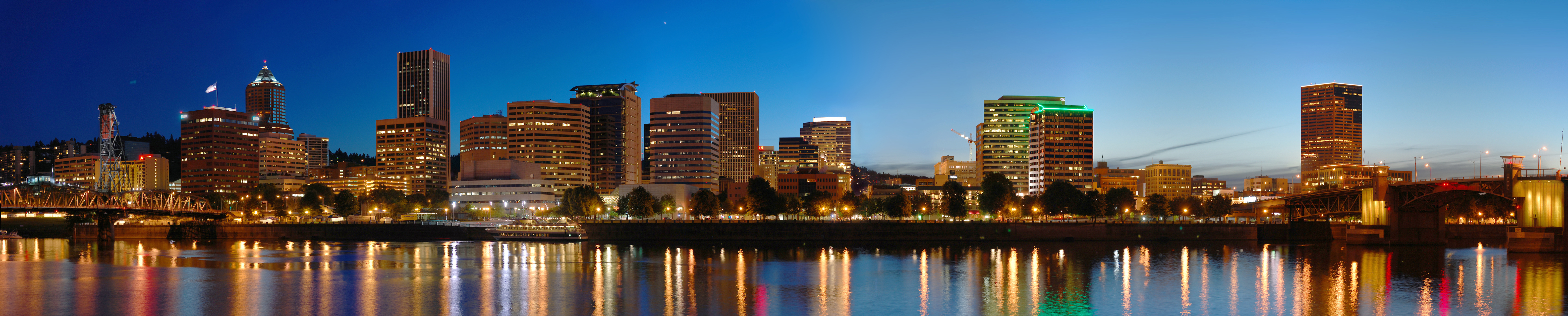 A stitched panorama of downtown Portland, OR at night